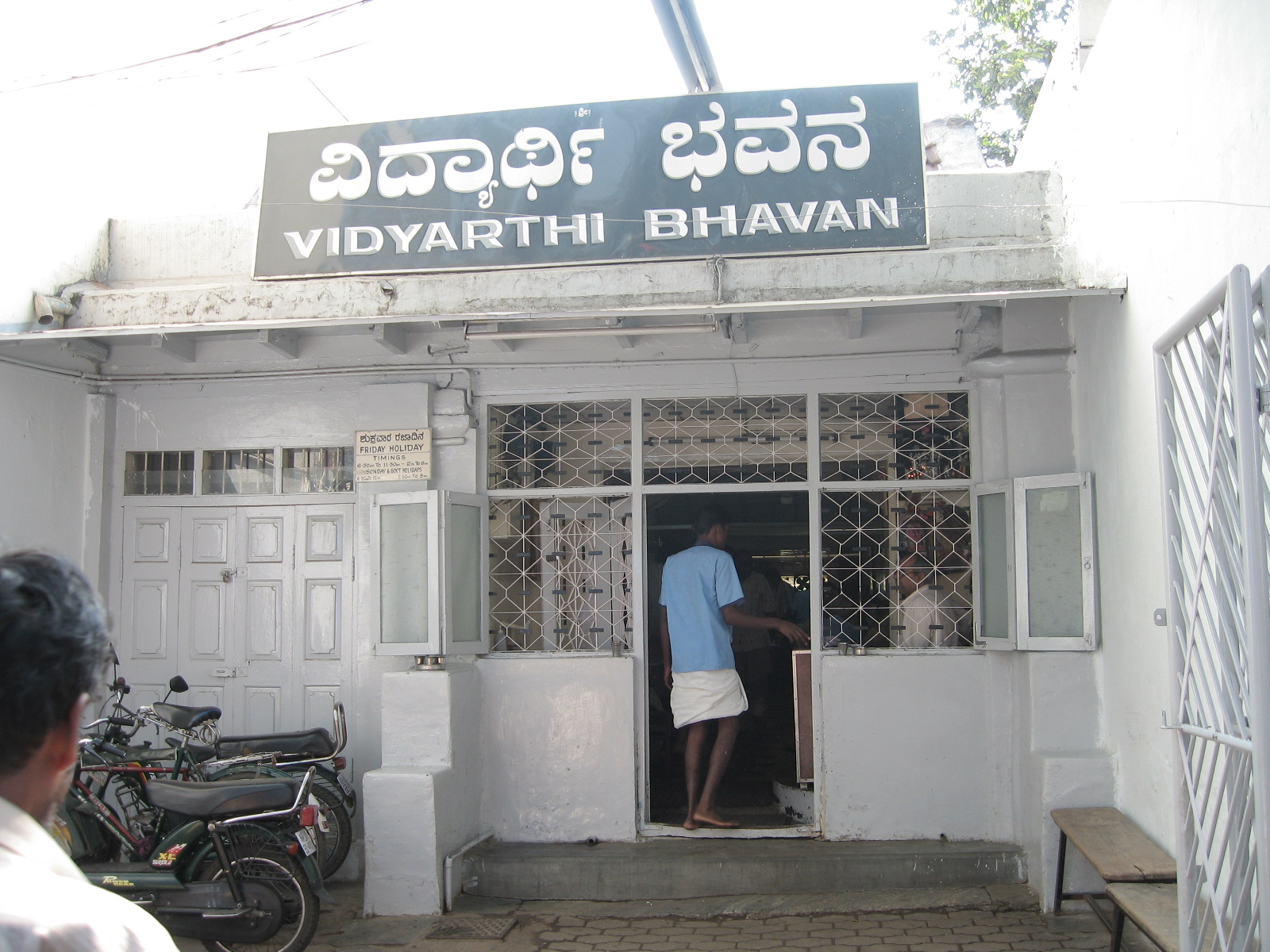 Vidyarthi Bhavan, one of the oldest and most popular restaurants in Bengaluru. Vidyarthi Bhavan means Hall of Students.